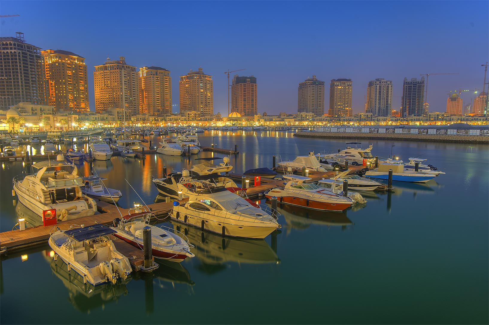 Boats docked at The Pearl Marina in November 2013.